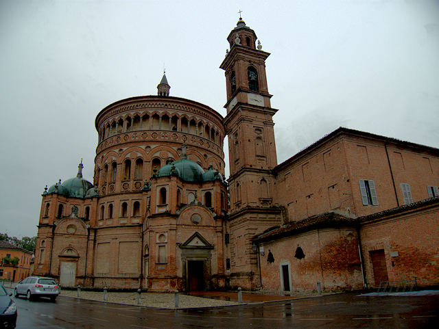 External view of shrine of Santa Maria della Croce, Crema, province of Cremona, Italy